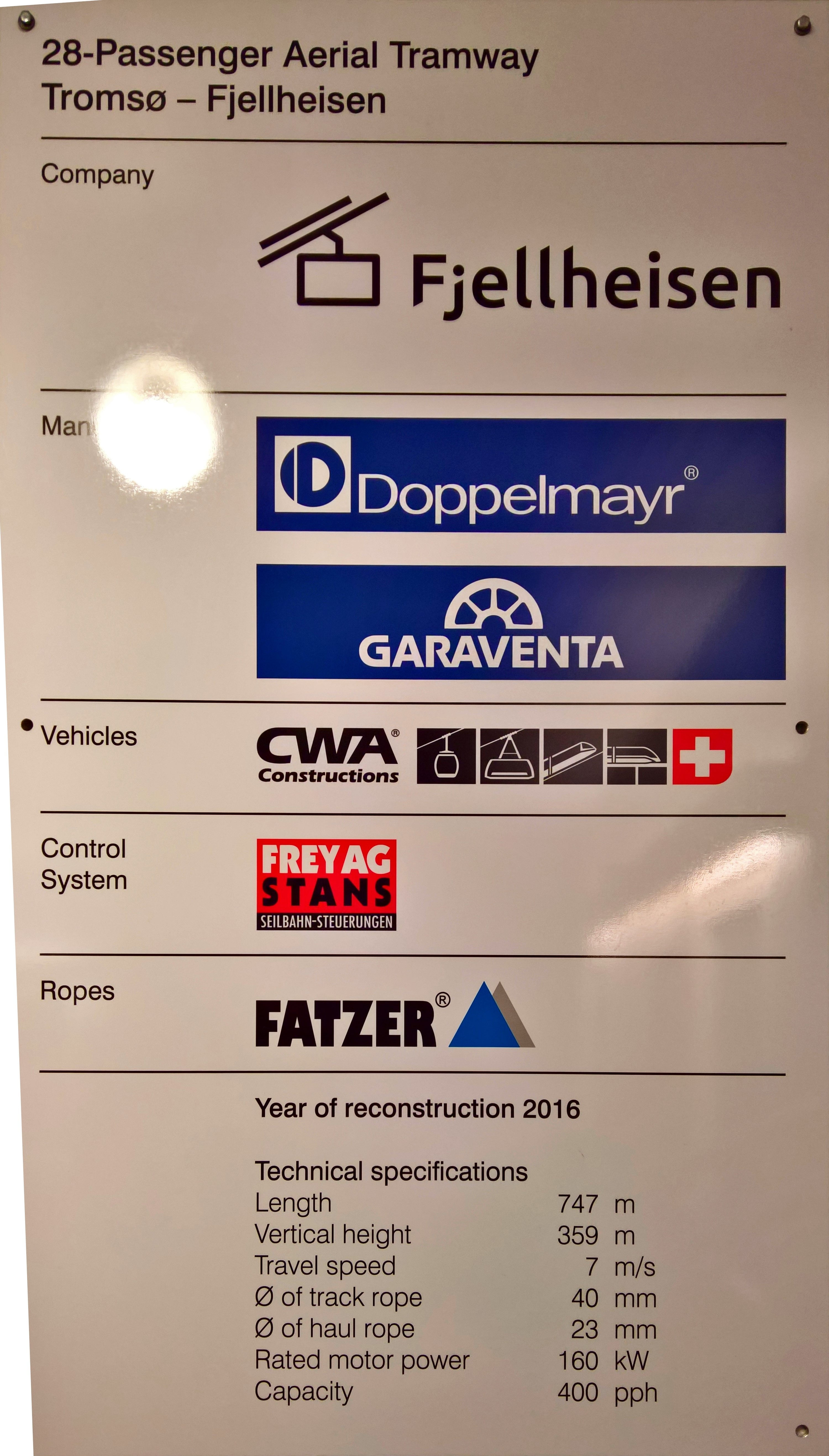 Fjellheisen Cable Car datasheet (2016)